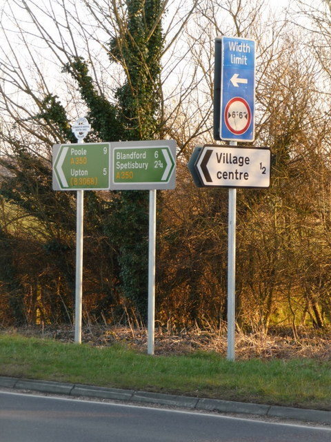 Sturminster Marshall: new signage on the A350 Since I took this picture: 1375068, the signs have been replaced and brought forward from the hedgerow. Still retained is the traditional finial from the previous finger-post - giving location and grid reference. For a close-up of the finial, see 1741460.